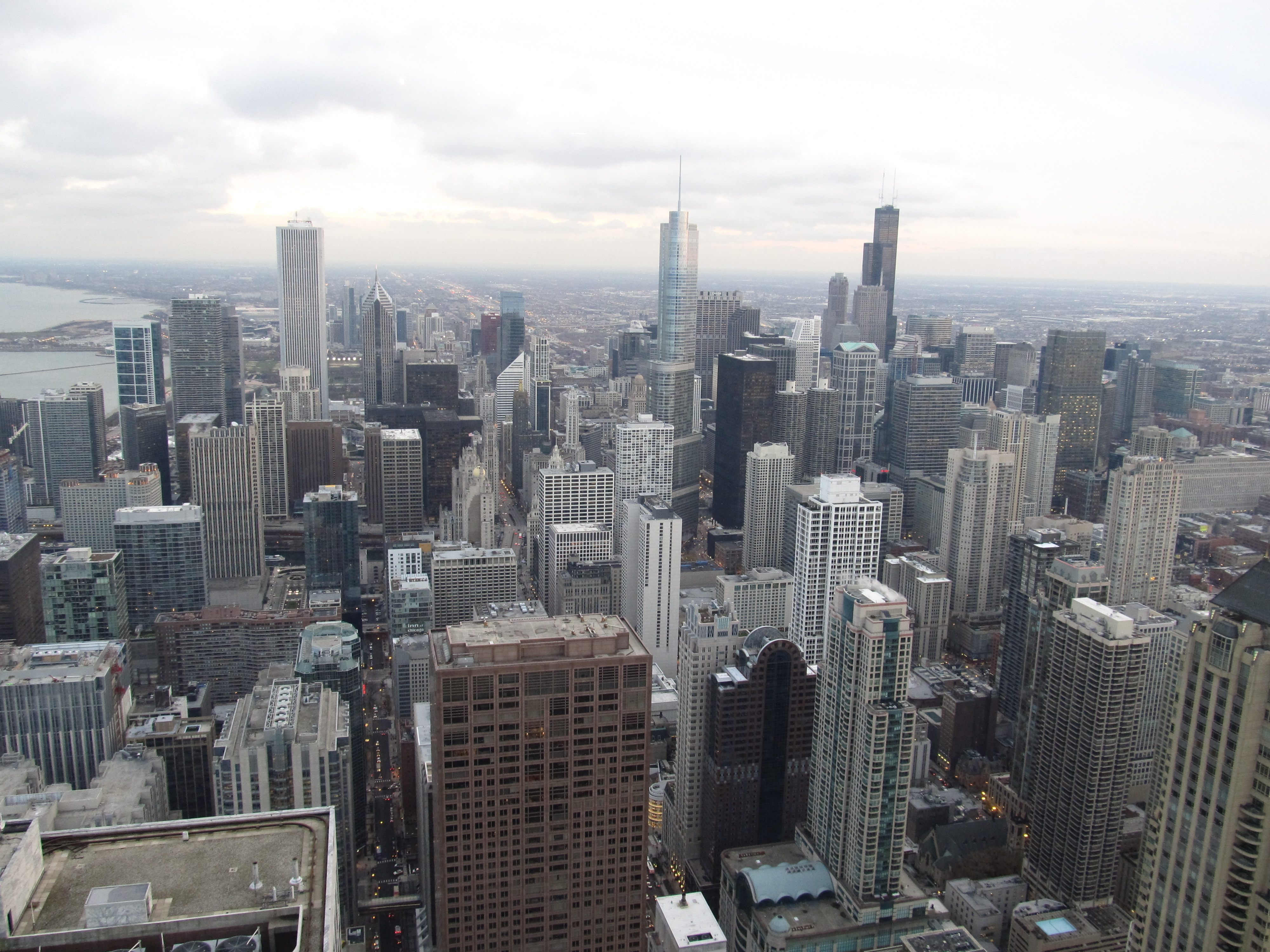 Chicago is the third most populous city in the United States, after New York City and Los Angeles. With 2.7 million residents, it is the most populous city in both the U.S. state of Illinois and the American Midwest. Its metropolitan area, sometimes called Chicagoland, is home to 9.5 million people and is the third-largest in the United States. Chicago is the seat of Cook County, although a small part of the city extends into DuPage County. Chicago was incorporated as a city in 1837, near a portage between the Great Lakes and the Mississippi River watershed, and experienced rapid growth in the mid-nineteenth century. Today, the city is an international hub for finance, commerce, industry, technology, telecommunications, and transportation, with O'Hare International Airport being the second-busiest airport in the world in terms of traffic movements. In 2010, Chicago was listed as an alpha+ global city by the Globalization and World Cities Research Network, and ranks seventh in the world in the 2012 Global Cities Index. As of 2012, Chicago had the third largest gross metropolitan product in the United States, after the New York City and Los Angeles metropolitan areas, at a sum of US$571 billion. In 2012, Chicago hosted 46.37 million international and domestic visitors, an overall visitation record. Chicago's culture includes contributions to the visual arts, novels, film, theater, especially improvisational comedy, and music, particularly blues, soul, and house music. The city has many nicknames, which reflect the impressions and opinions about historical and contemporary Chicago. The best-known include the "Windy City" and "Second City." Chicago has professional sports teams in each of the major professional leagues.